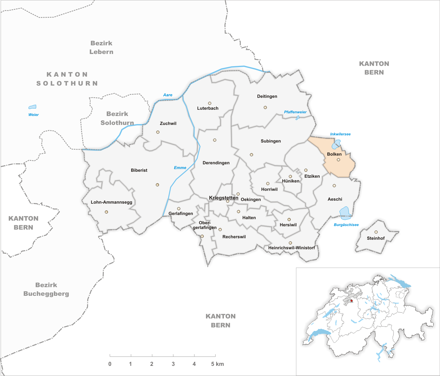 Municipality Bolken